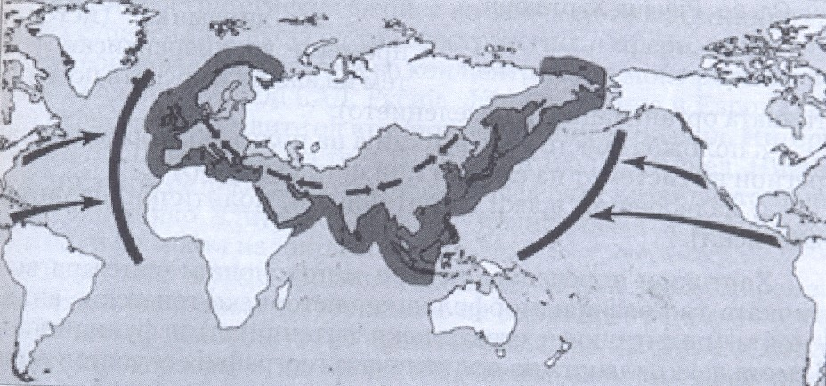 Map of the Heartland concept of 1904 coined by sir Halford John Mackinder